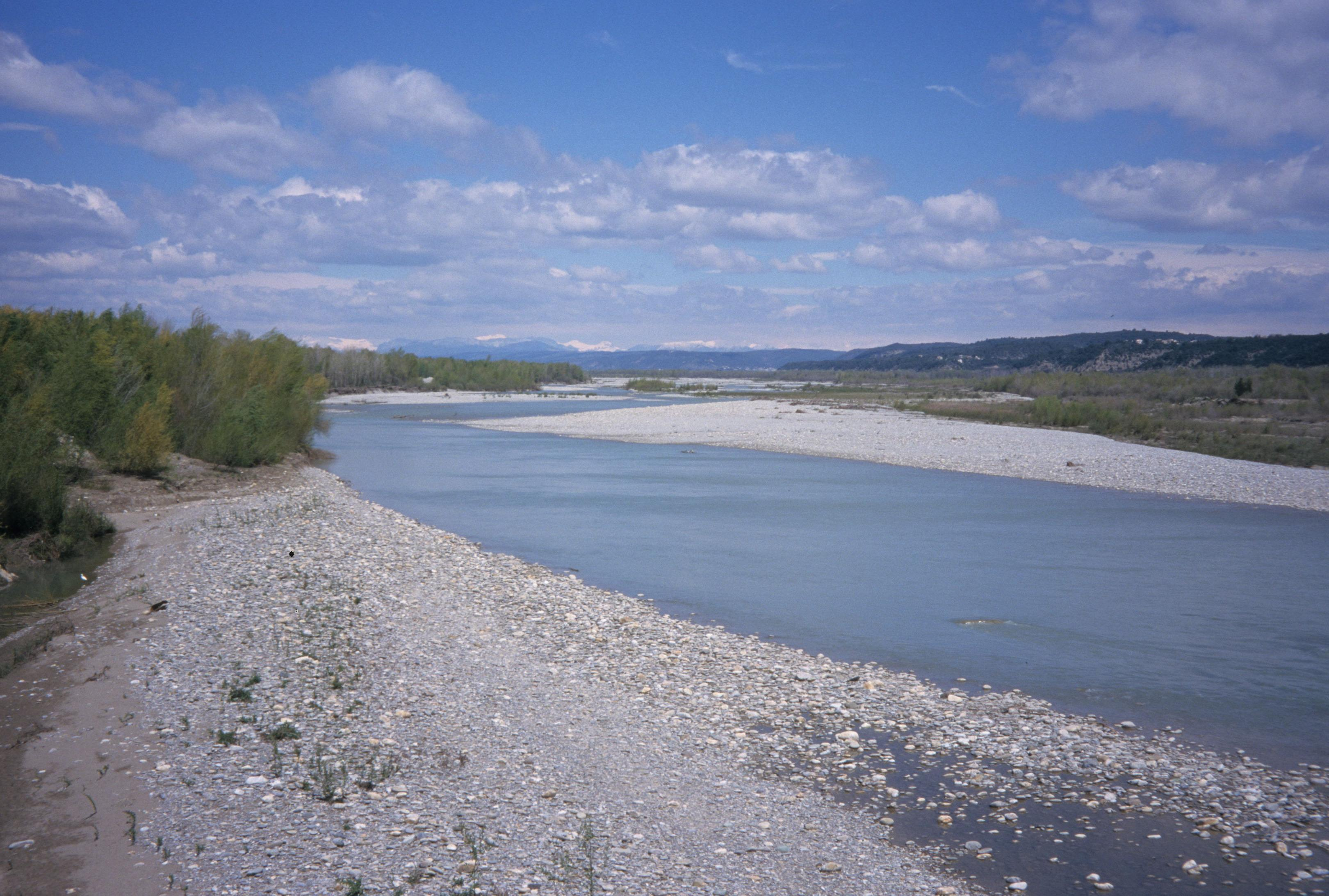 The Durance river in the vicinity of Manosque, Provence, France.